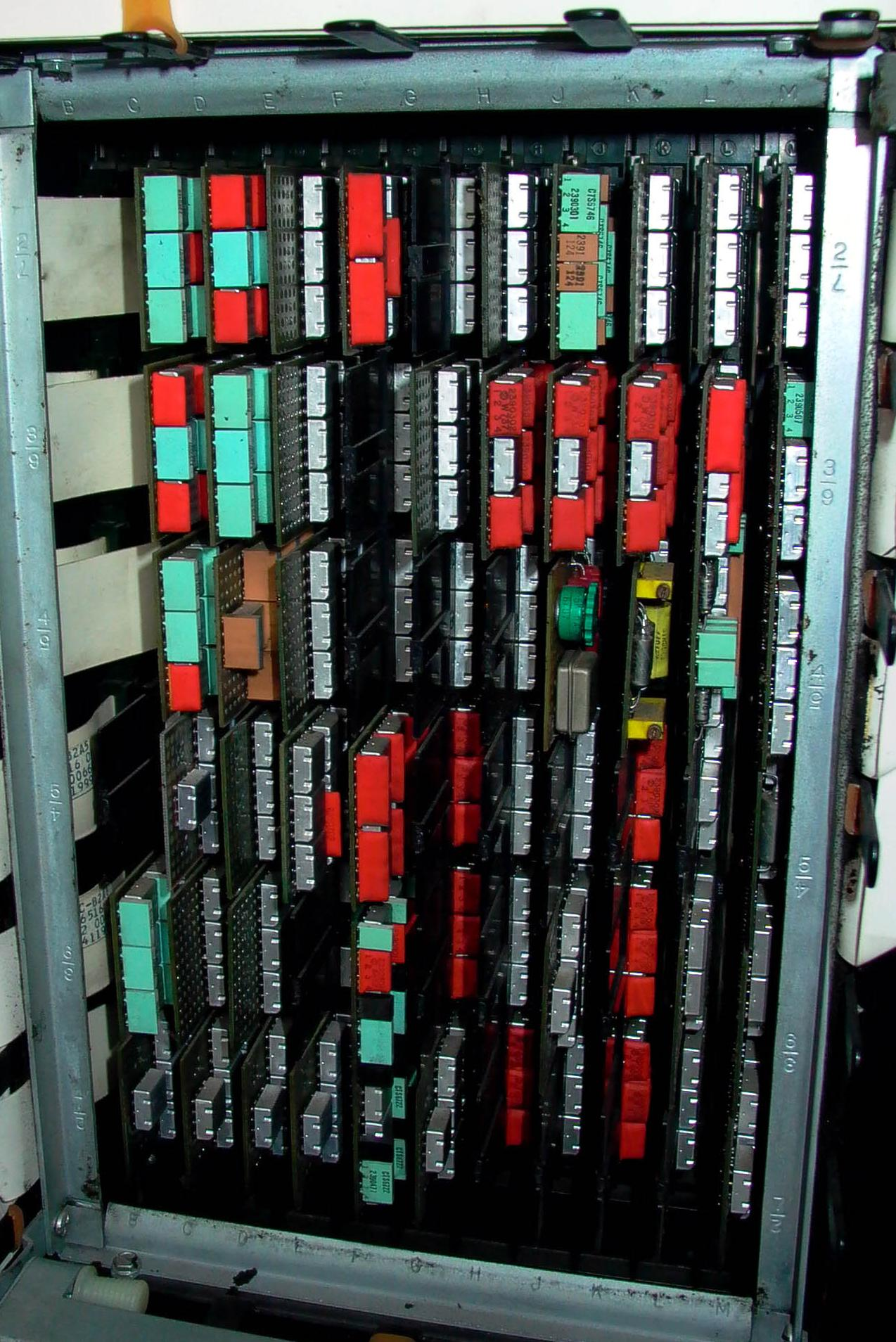 Solid Logic Technology card-holding board IBM computers in the System/360 era used hybrid circuits instead of the then new integrated circuits. IBM called this Solid Logic Technology (SLT). This photo shows a board from an IBM 1800 full of SLT printed circuit cards. The hybrid circuits are in the square metal cans. This photo was taken by Mike Ross of . He has given permission via email: "Feel free to make use of ... my pictures under the GNU license. All I ask is that they are credited & linked...]. --agr 18:55, 17 Aug 2004 (UTC)